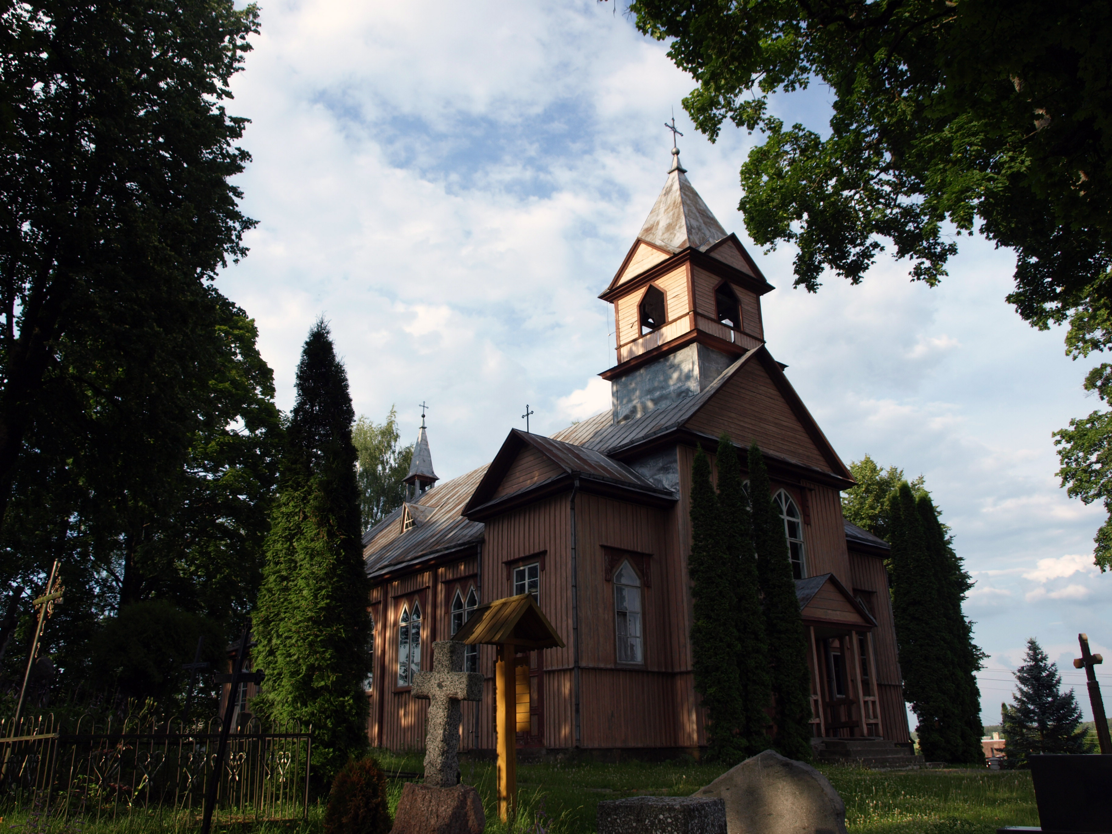 Bijutiškis church, Molėtai district, Lithuania